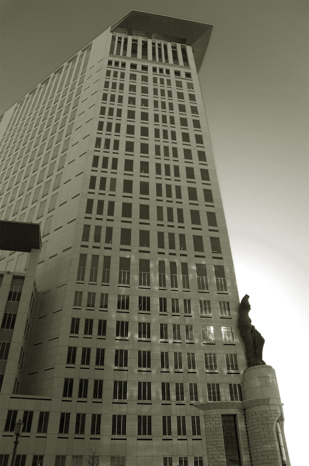 Carl B. Stokes Federal Courthouse